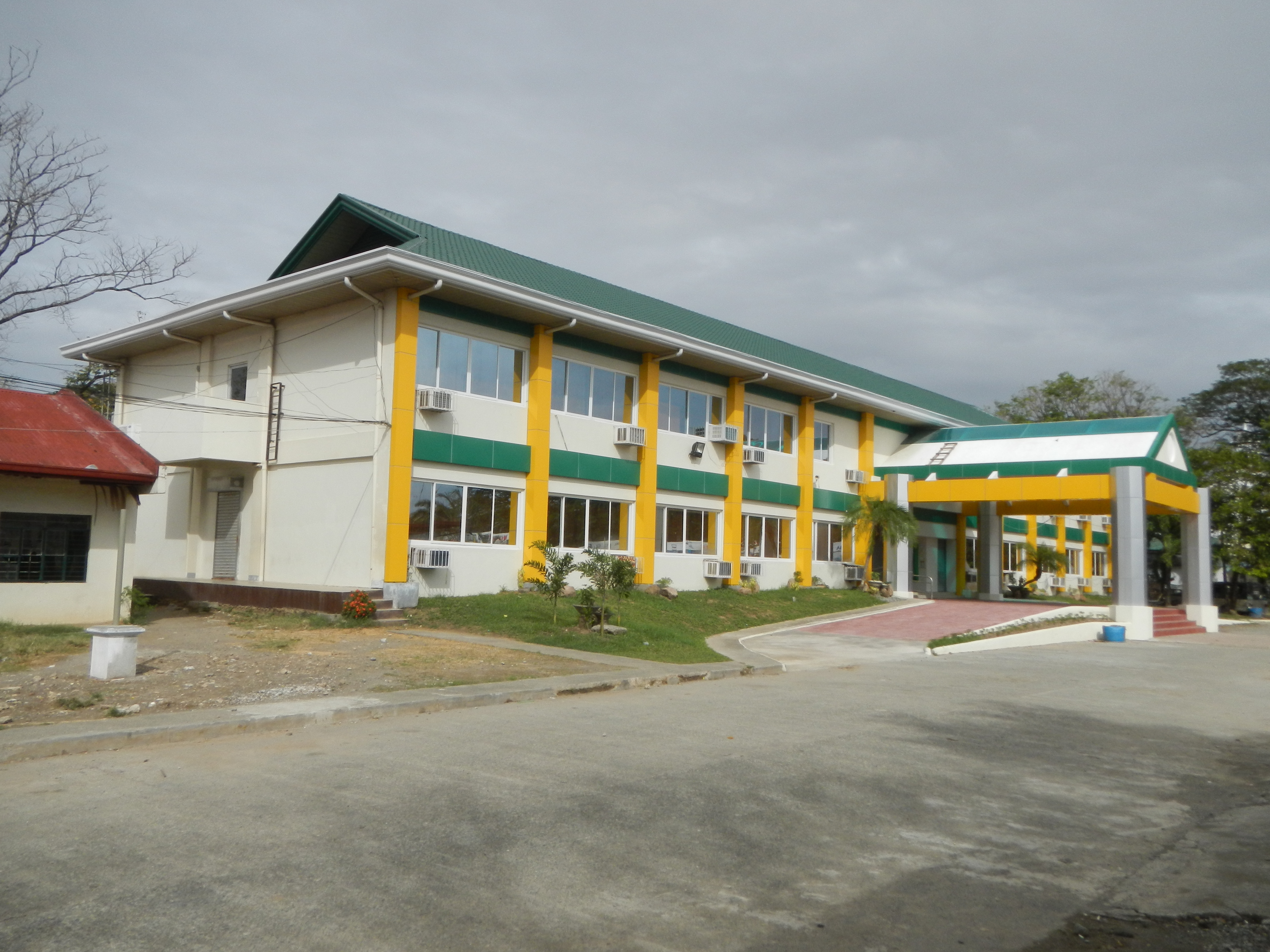 Guimba Town Hall (Nueva Ecija) Rizal Monument, Severino B. Bernardino Hall, Guimba Municipal Gym and Auditorium, Water District (from and along the Cuyapo-Guimba, Nueva Ecija Road by Pasong Inchic, Guimba, Nueva Ecija Bridge over Creek to River in Barangays Pasong Intsik and Bacayao, beside Barangays Saint John District, Saint John and Santa Veronica, from Casongsong, Narvacan-I, Pacac, Lennec, Guimba, Nueva Ecija, Nueva Ecija Province).